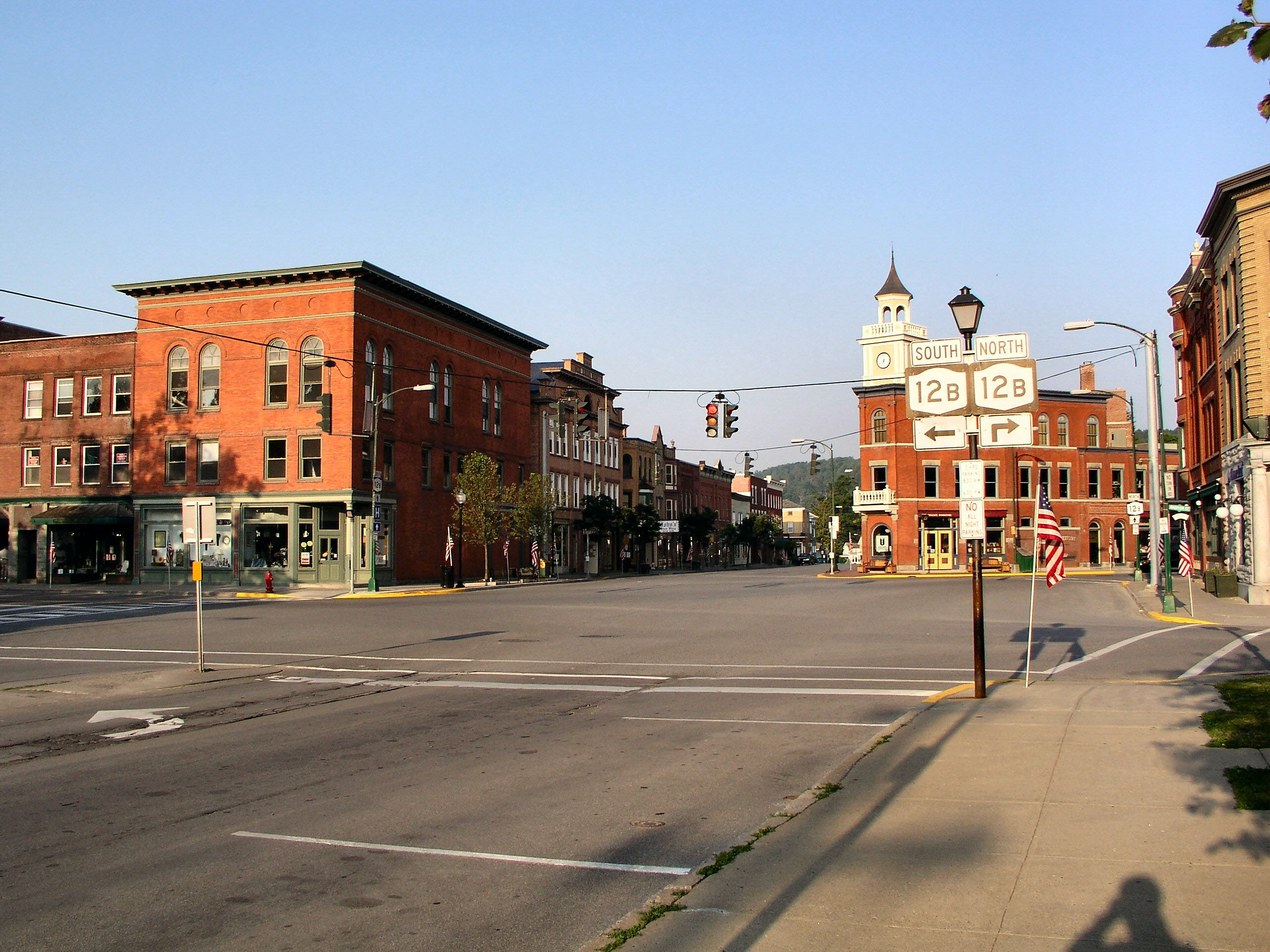 central Hamilton